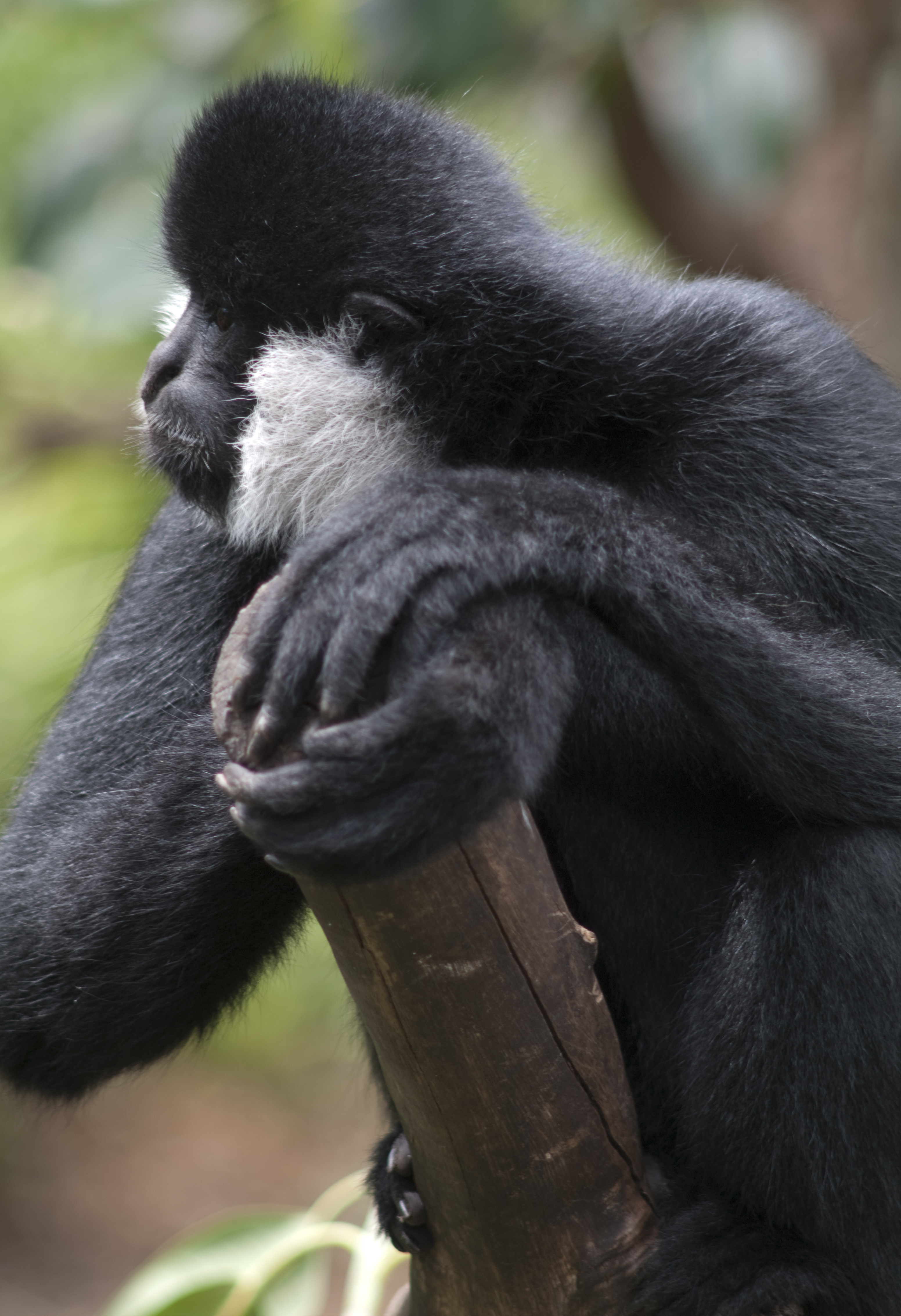 A captive male Northern White-cheeked Gibbon (Nomascus leucogenys), recognisable due to the prominent white colouring, as is apparent on this specimen. This example is from the Adelaide Zoo in South Australia.